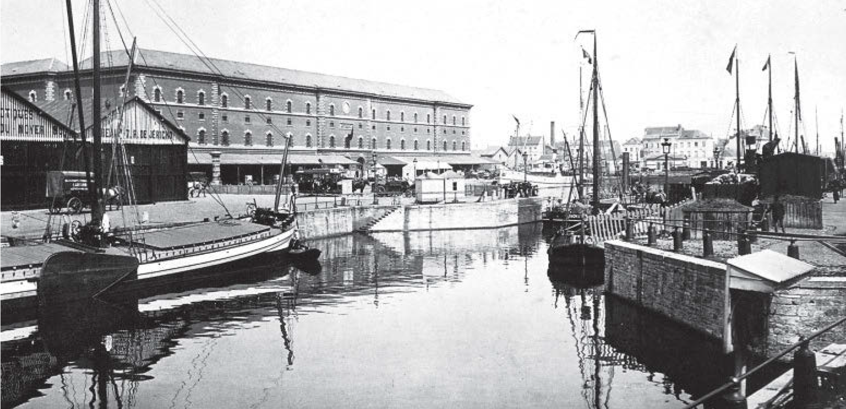 The port of Brussels and the second Entrepôt/Stapelhuis (1844-1910), designed by Louis Spaak. Photograph by A. Louvois